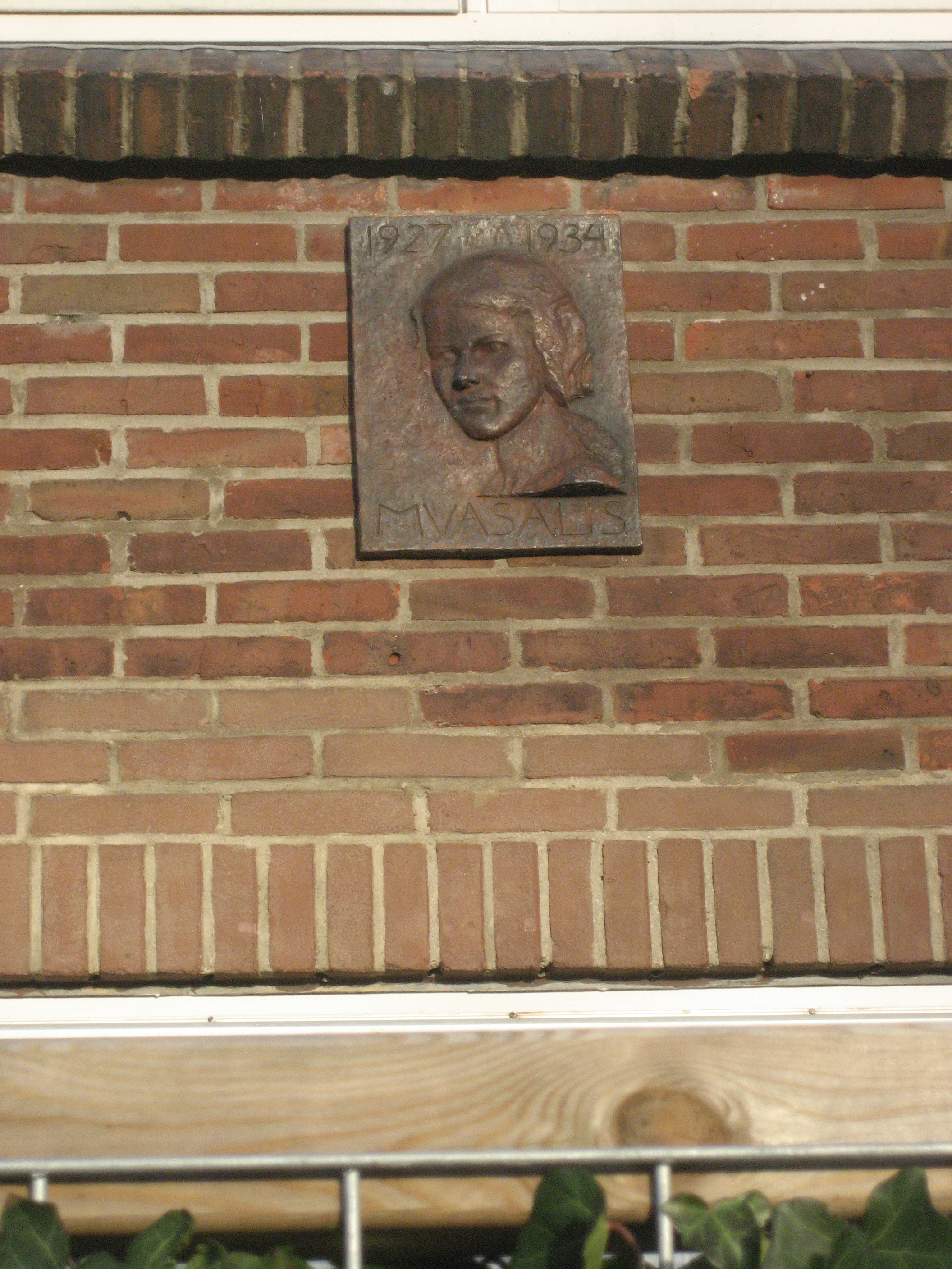 Bronze plaque with portrait of Dutch poet M. Vasalis (Margaretha Droogleever Fortuyn-Leenmans, 1909-1998). Artist: Aart Schonk. Made in 2013. Street: Lijsterstraat 36, corner with Leeuwerikstraat, Leiden (The Netherlands). Margarethe Leenmans lived in this house during her studies in Leiden (1927-1934).